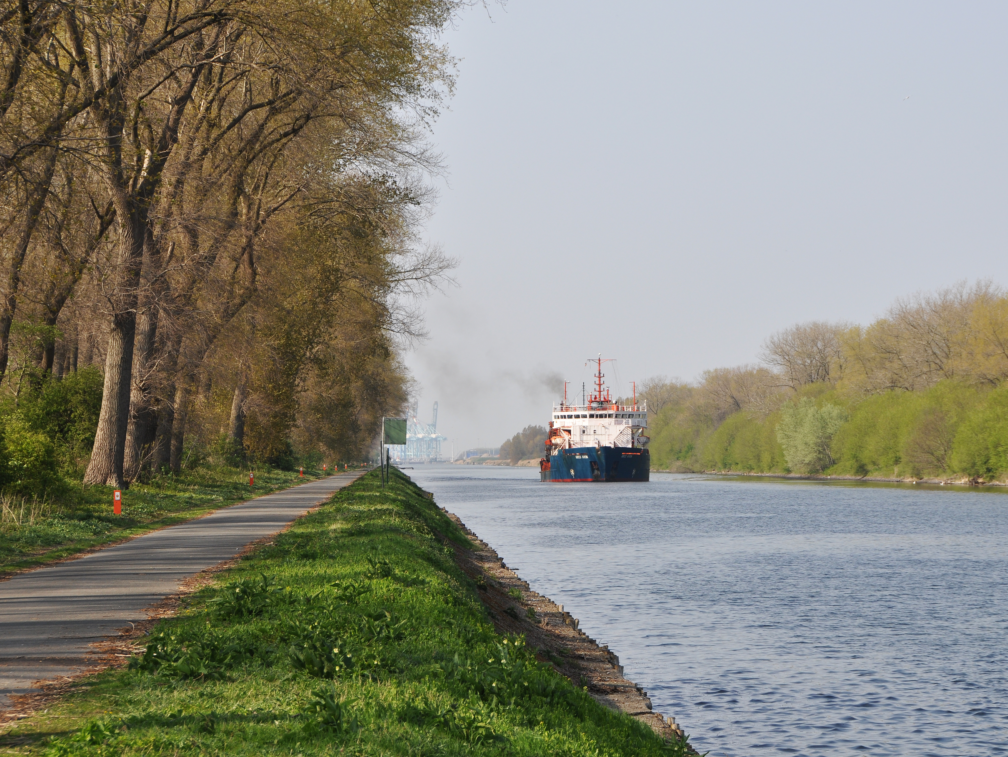 Bruges (Belgium): the Boudewijn canal